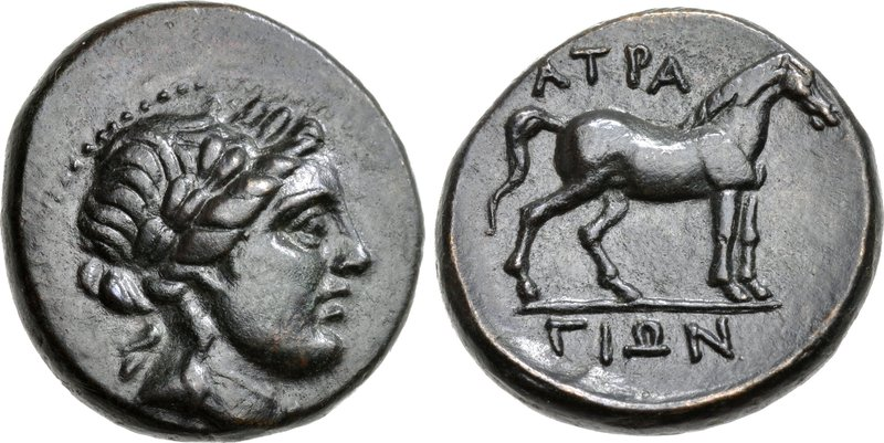 THESSALY, Atrax. 3rd -2nd century BC. Æ Trichalkon (20.5mm, 8.84 g, 4h). Wreathed head of Apollo r., border of dots / ΑΤΡΑ above, ΓΙΩΝ below the ex. line, free horse standing r. on ex. line.